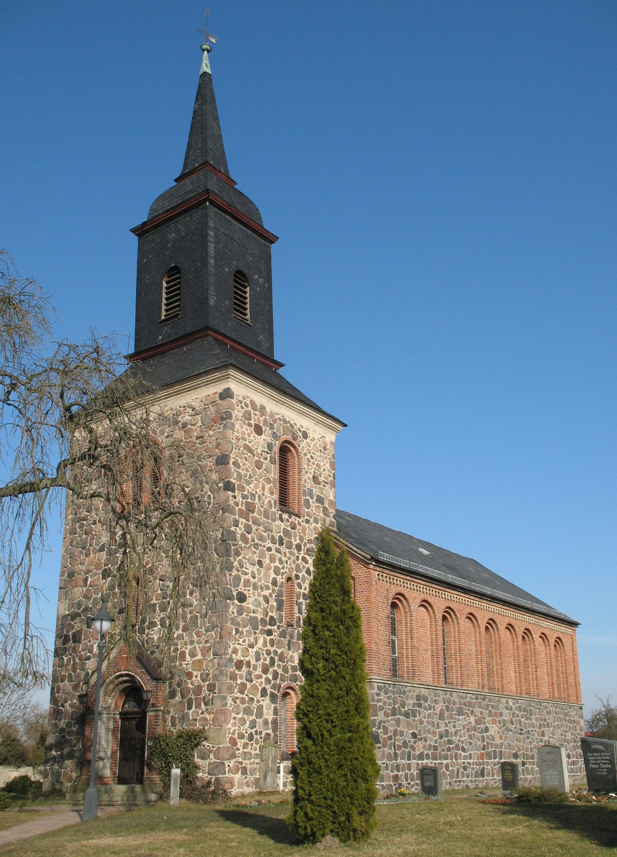 Church in Göhlsdorf (municipality Kloster Lehnin) in Brandenburg, Germany